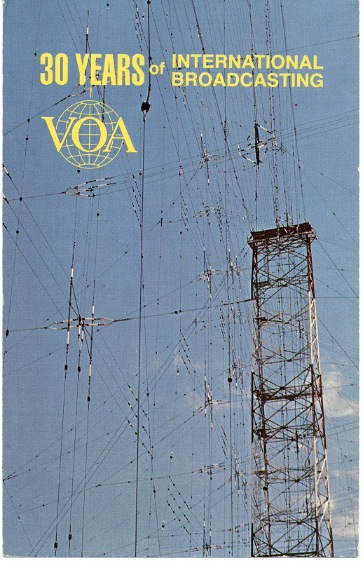 QSL card confirming reception of a Voice of America broadcast from their relay station in Thessaloniki, Greece.